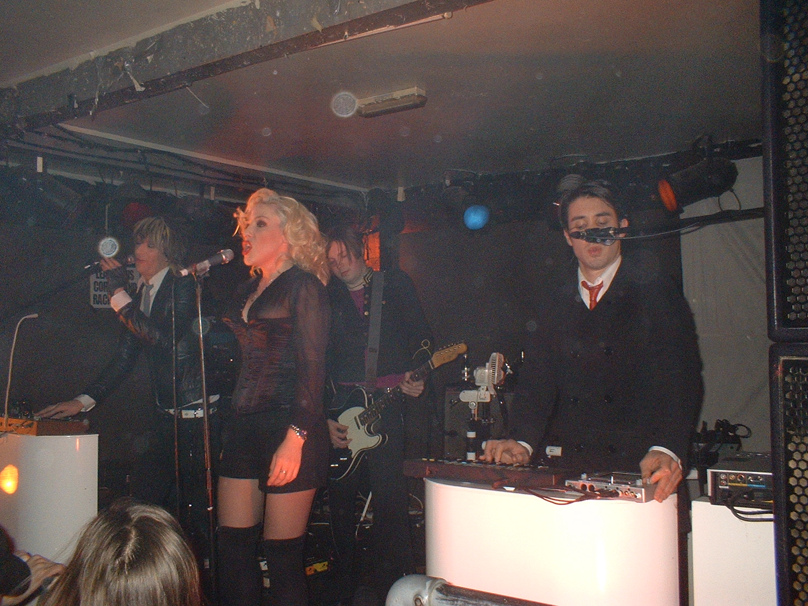 Image of The Modern (band) playing The Charlotte in Leicester on Thursday March 2, 2006. Taken by me. They were very good.